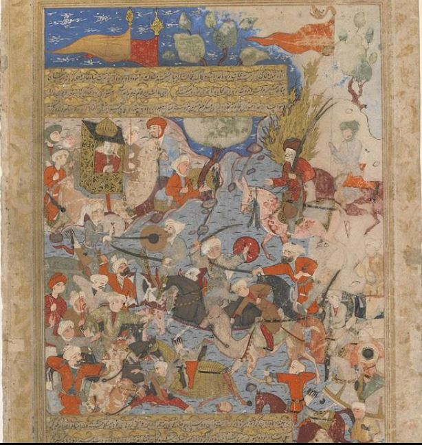 Folio from a Rawdat al-safa (Garden of felicity) by Mirkhwand (d. 1498); verso: Ali and Aisha at the Battle of the Camel; recto: text 1571-1572 Safavid period Opaque watercolor, ink and gold on paper H: 41.3 W: 27.6 cm Shiraz, Iran